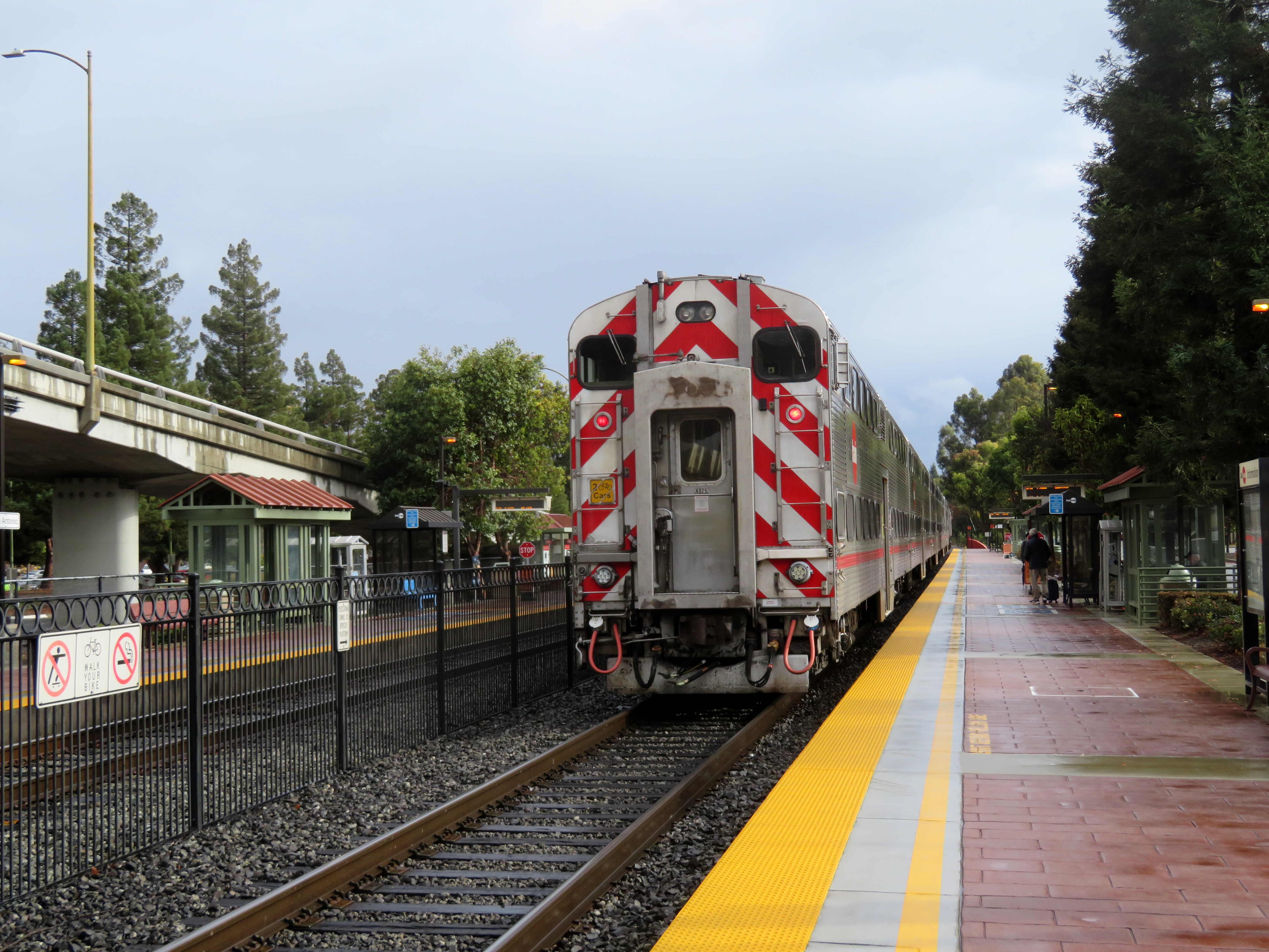 A southbound train departing San Antonio station in November 2018